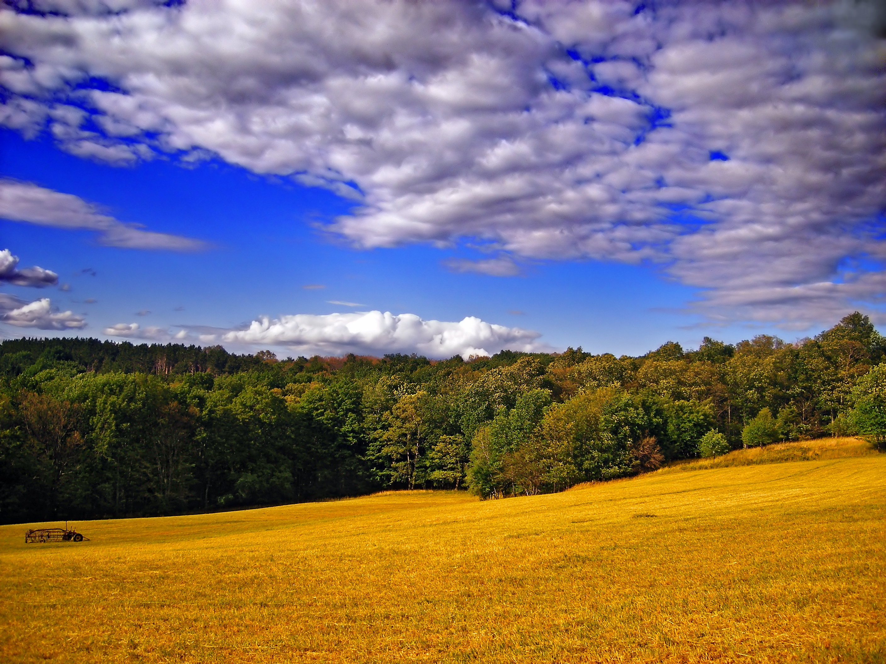 Barrett Township, Monroe County.Edge Effect